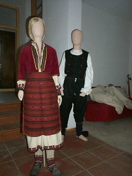 Traditional costumes Volka, image from the Folklore Museum, Drama, East Macedonia, Greece